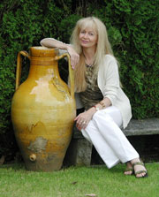 Simone Erni, swiss Artist and Daughter of Hans Erni